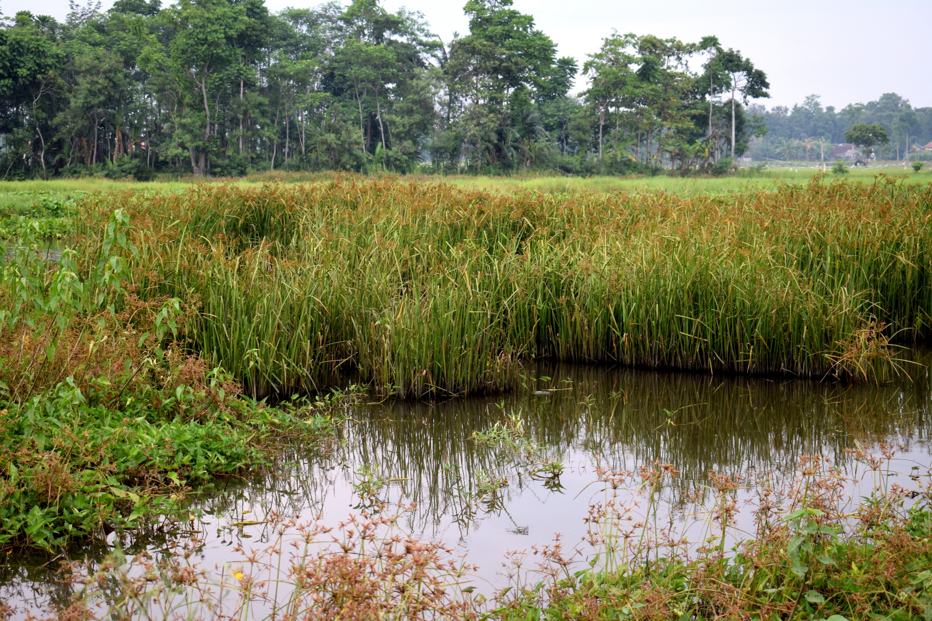 Actinoscirpus grossus. From Lumajang, East Java, Indonesia. Dense bushes. Lower right are flowering Cyperus malaccensis.